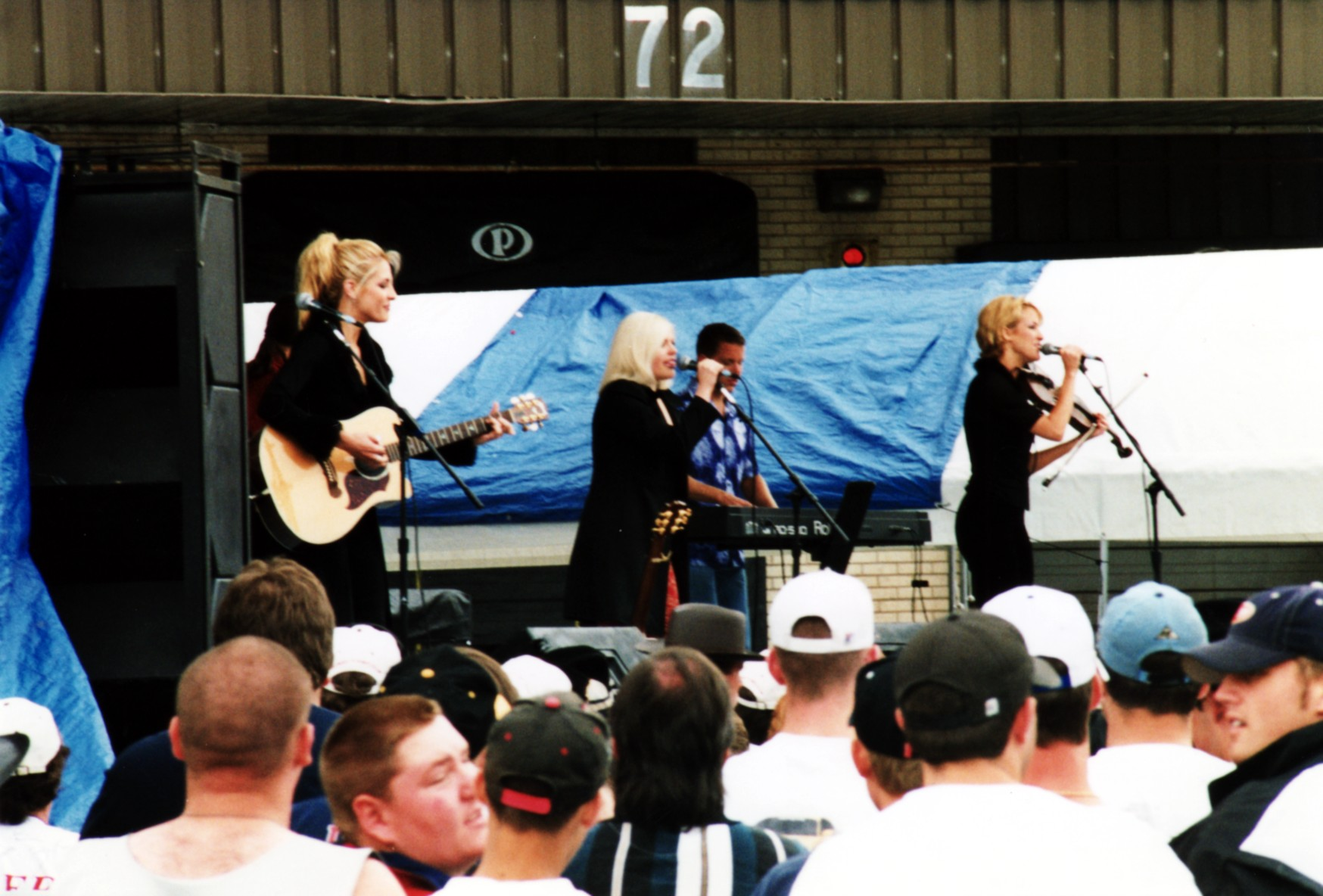 The Dixie Chicks at the Country For Kids concert in 1998 in Stafford, VA